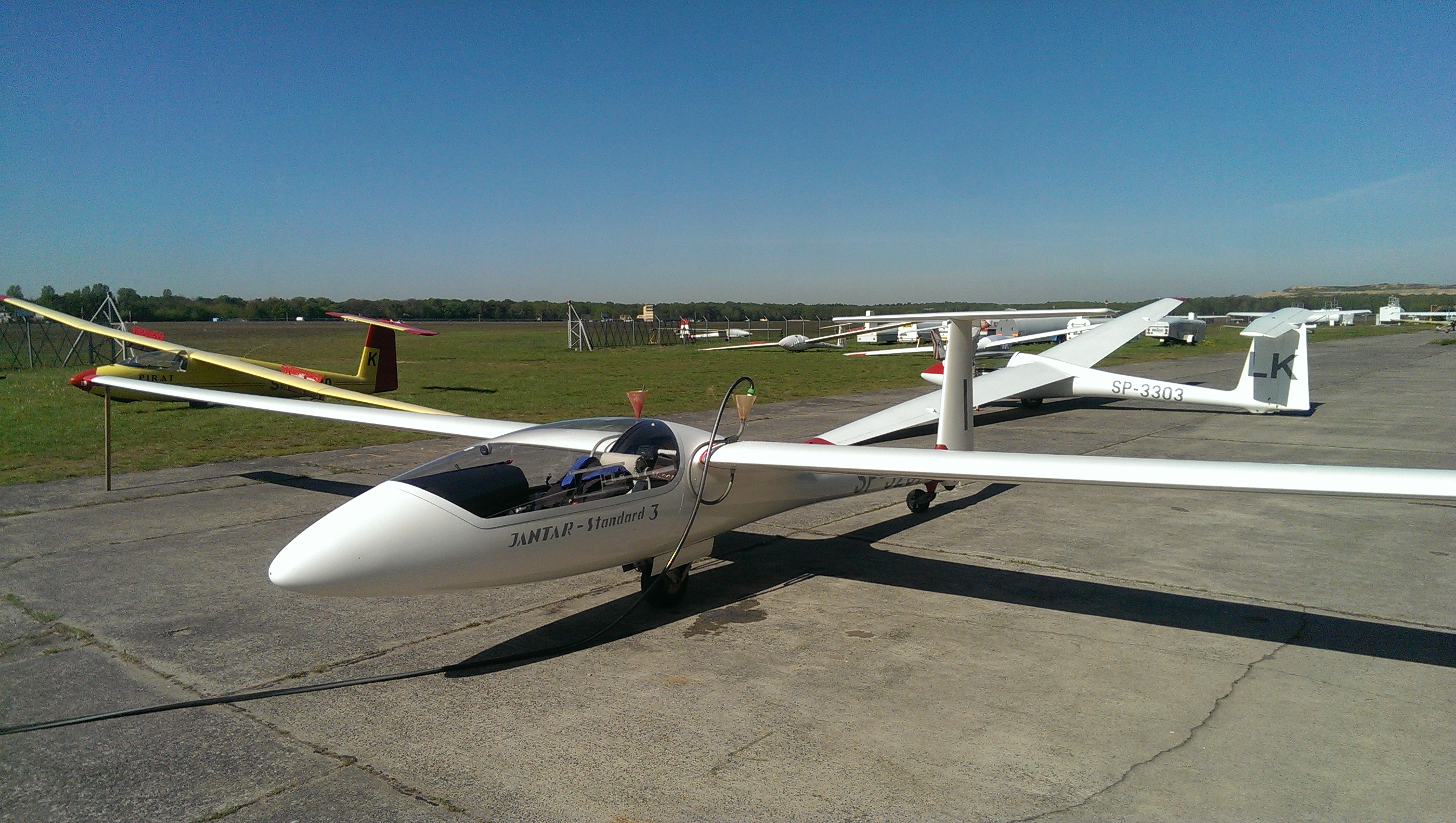 Filling water ballast tanks in a Jantar Standard 3 glider.